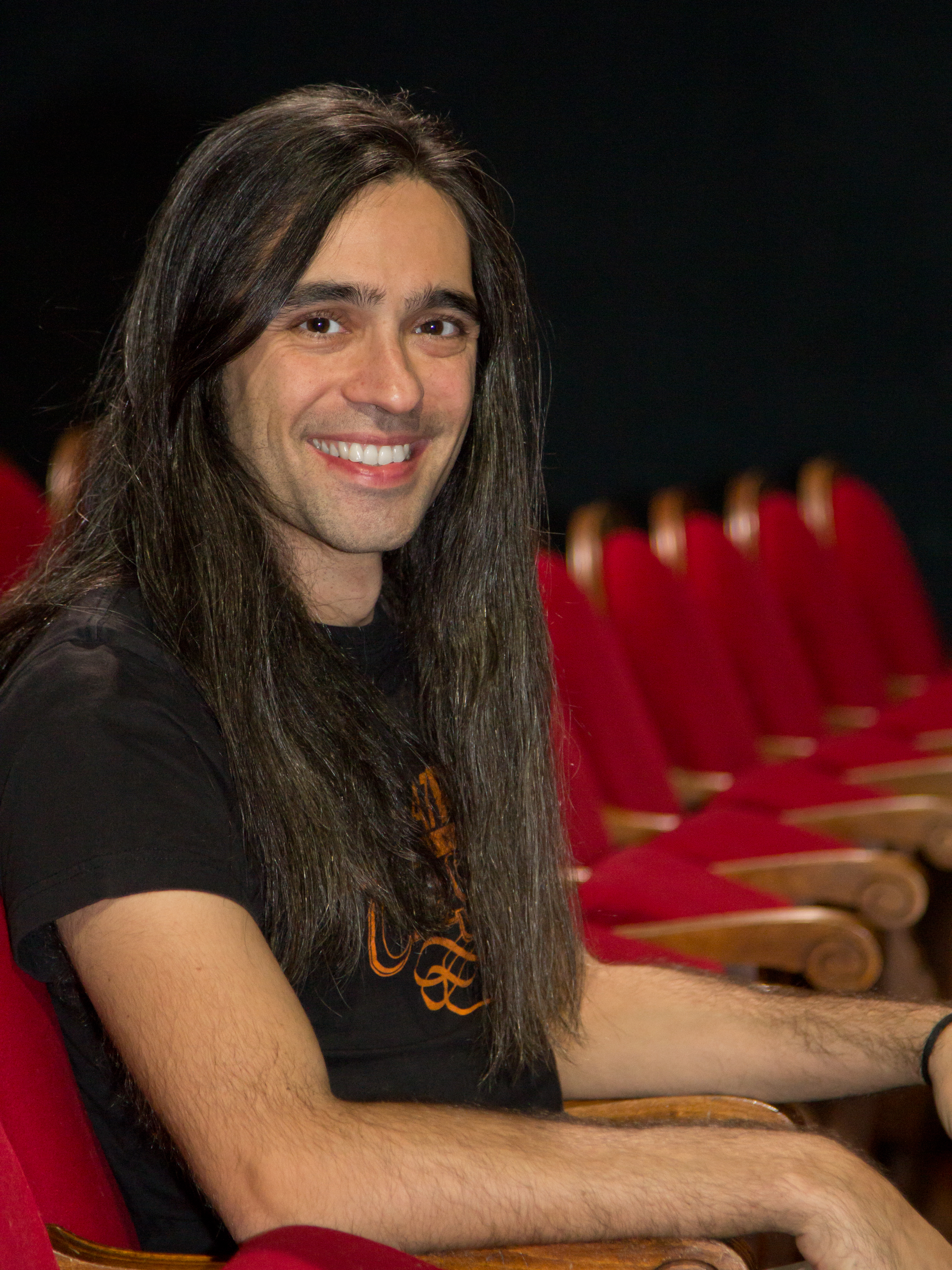 Álvaro Tato, writer and actor of the theatre company Ron Lalá (portrait at the Pavón Theatre, Madrid, Spain).